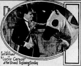 Newspaper advertisement for the American film Lucky Carson (1921) with Earle Williams, overlapping ads for other films removed from image, on page 4 of the January 7, 1922 Duluth Herald.